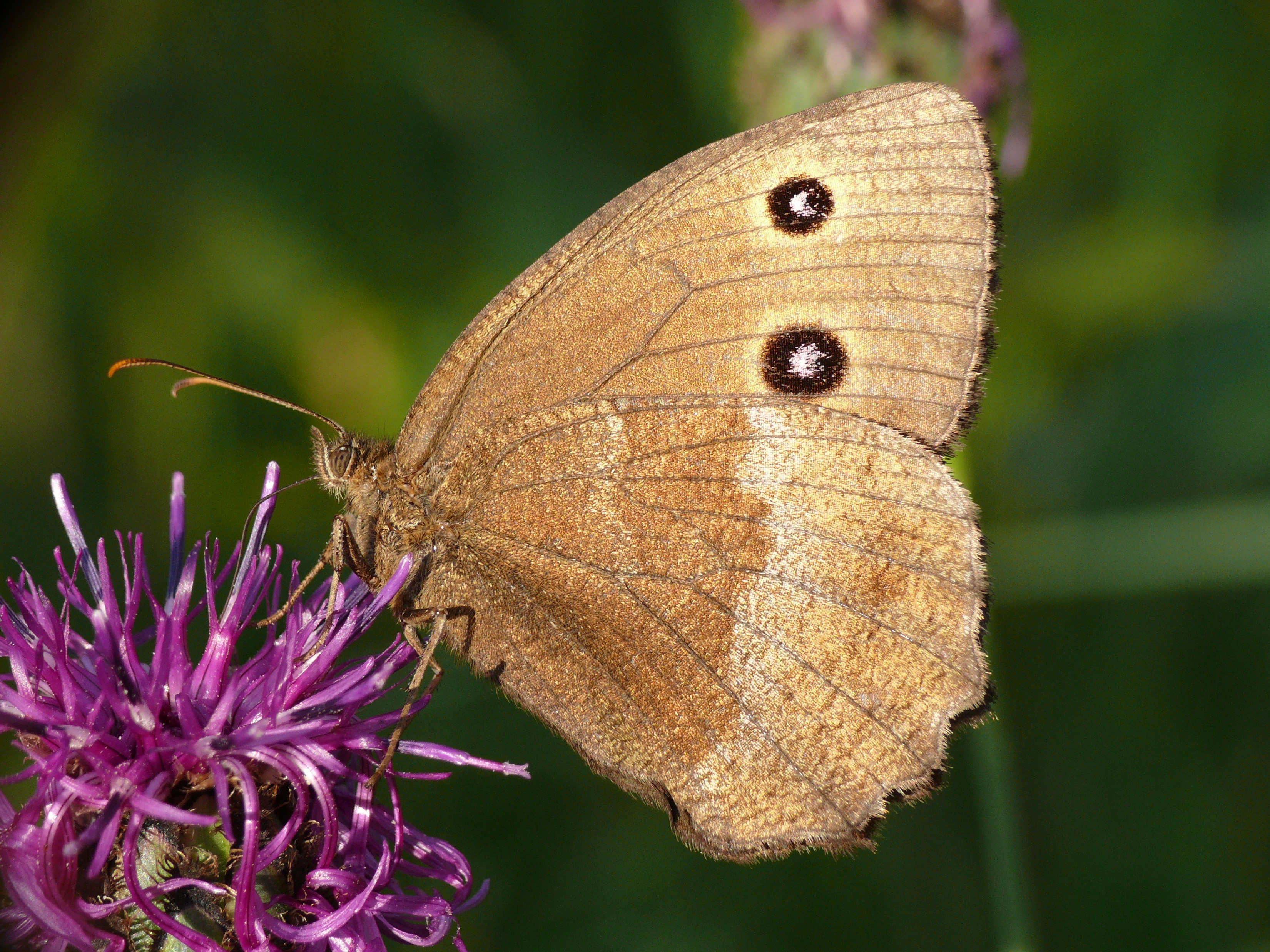 Minois drya feeding on Greater Knapweed (Centaurea scabiosa), Isar meadow near Bad Tölz, Bavaria, Germany